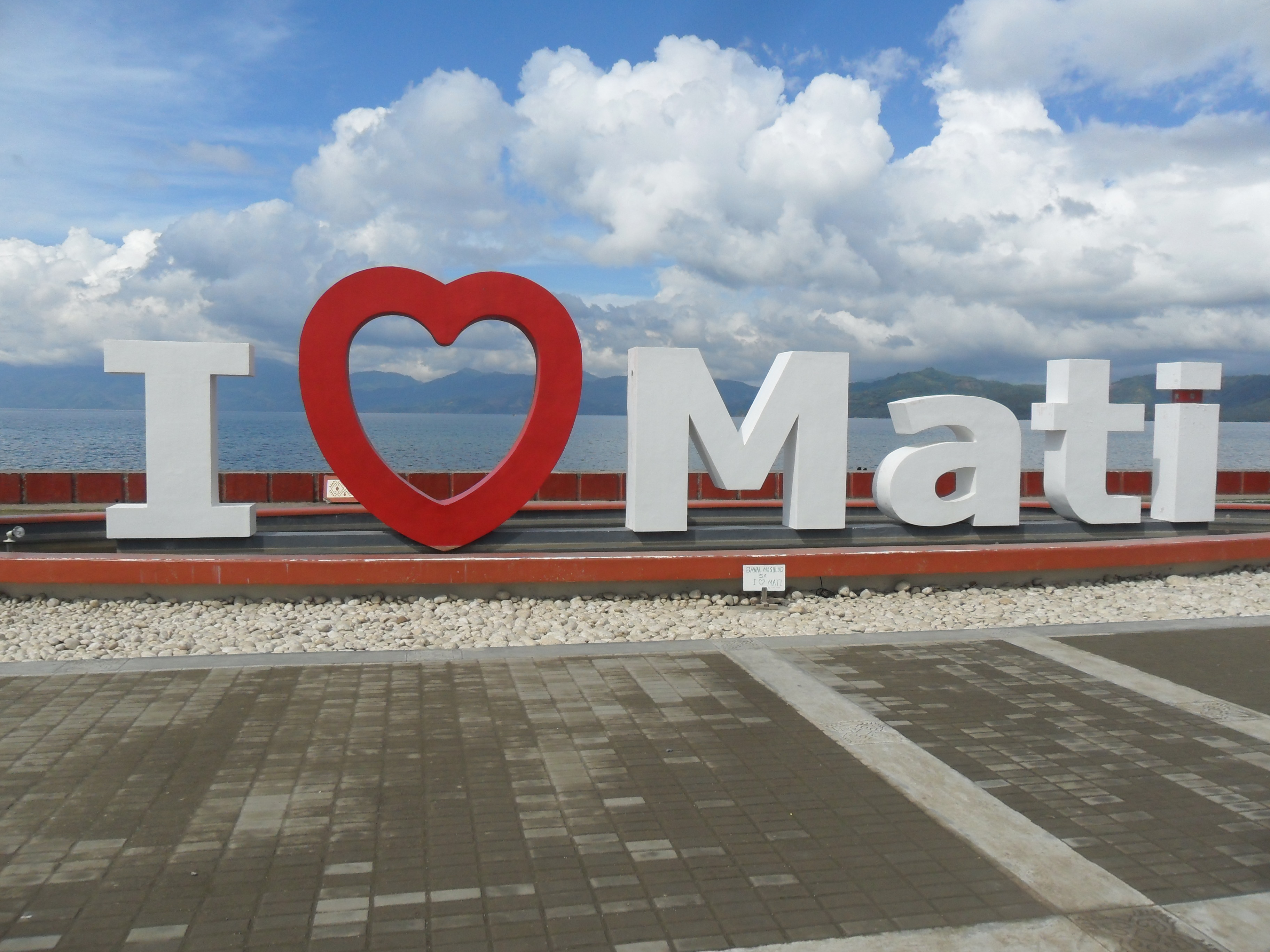 One of the attraction in Mati Park and Baywalk.